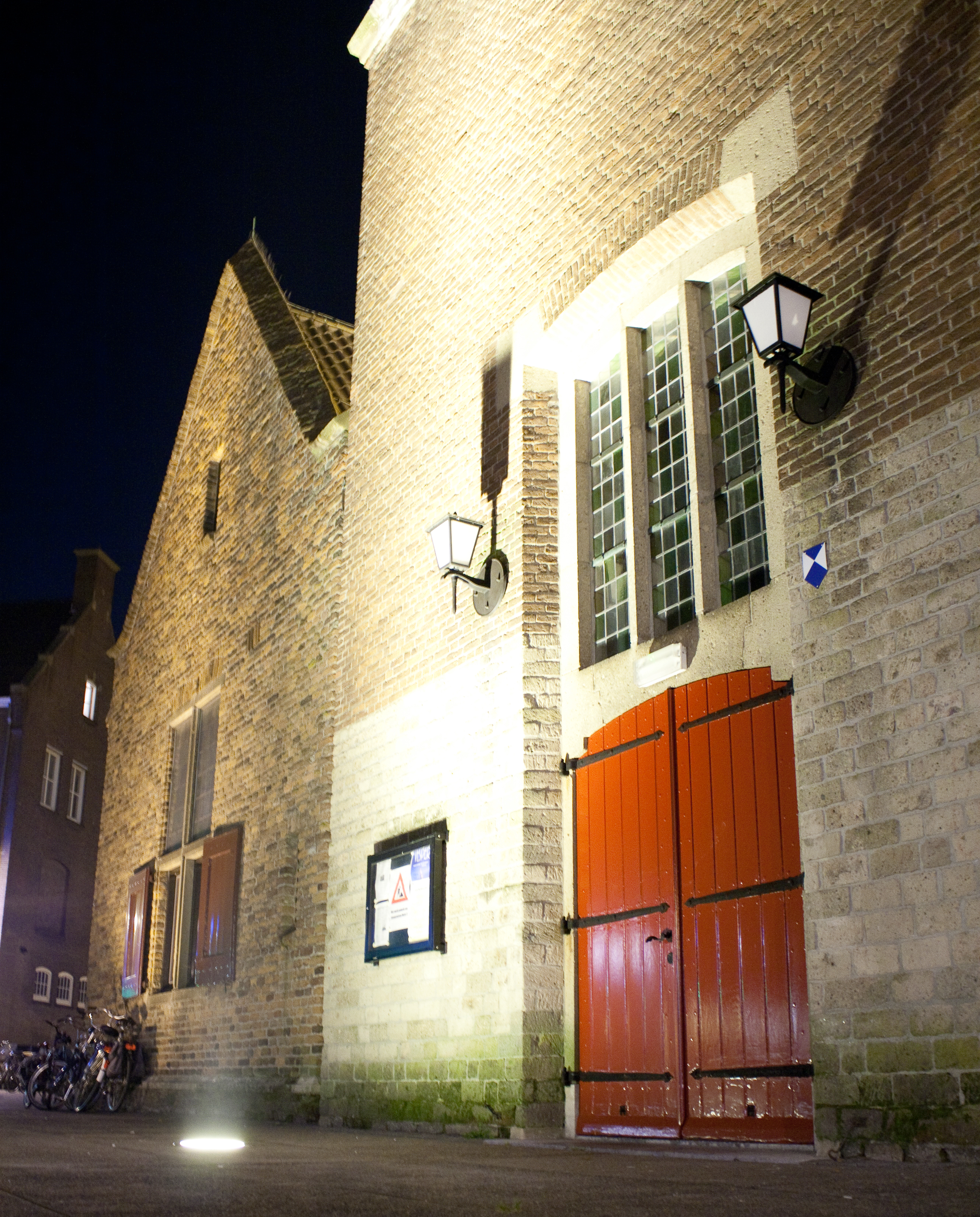 Entrance to the "Grote Kerk" in Wageningen, The Netherlands, by night.